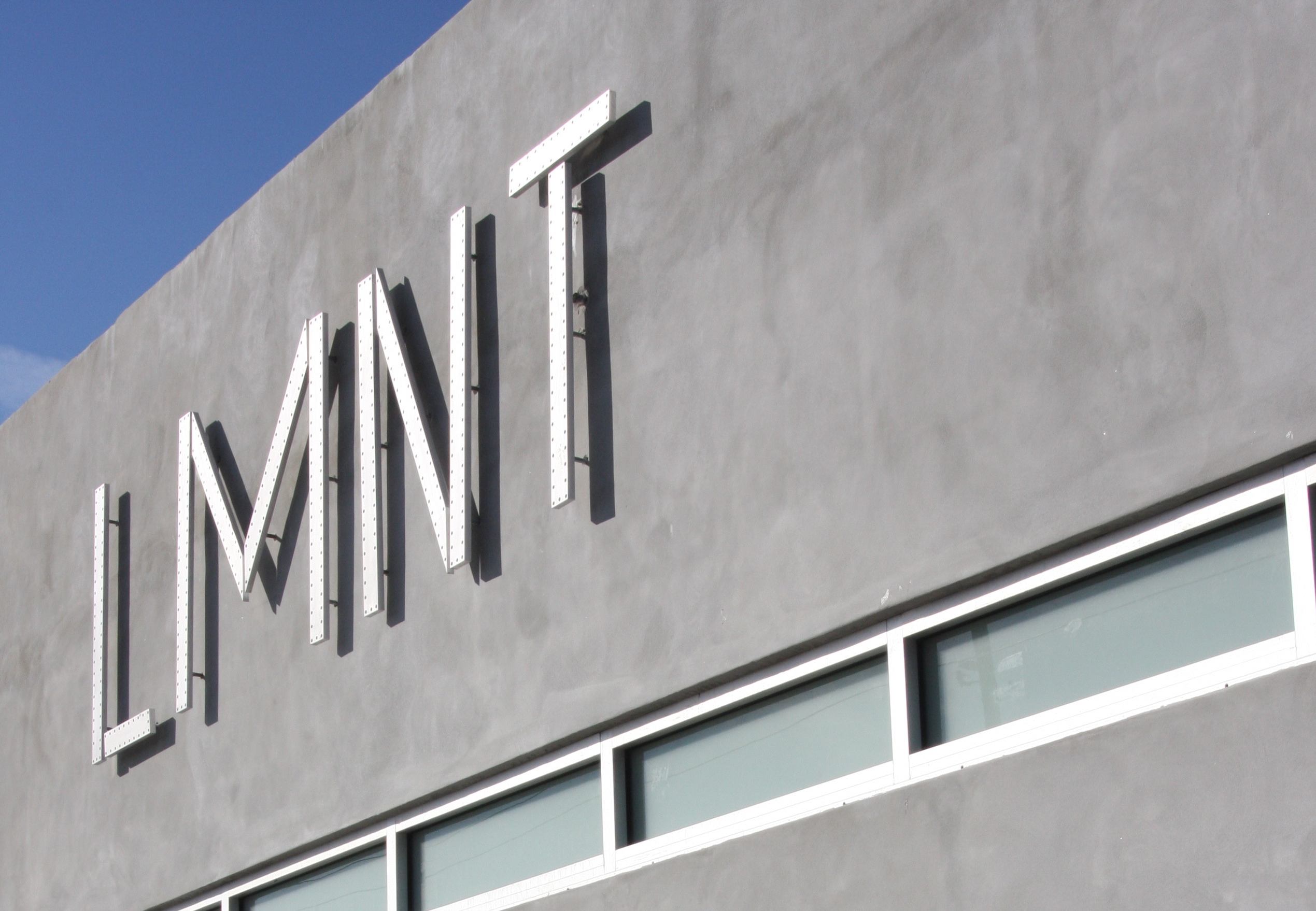 LMNT Contemporary Arts, flanked by the Wynwood Arts District, the Design District and Midtown houses all the elements for the realm of senses.